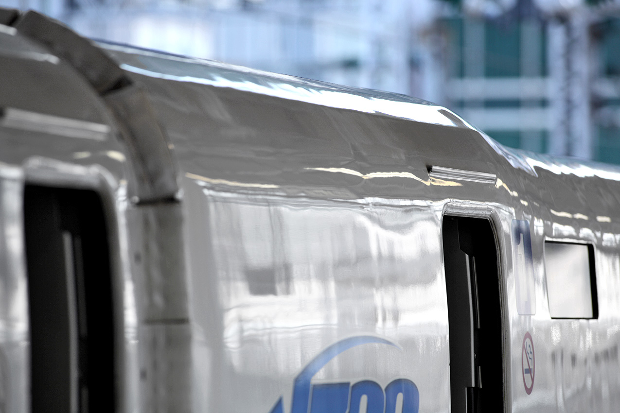 It shows the sectional difference of the both ends car's body of N700 series Shinkansen train.